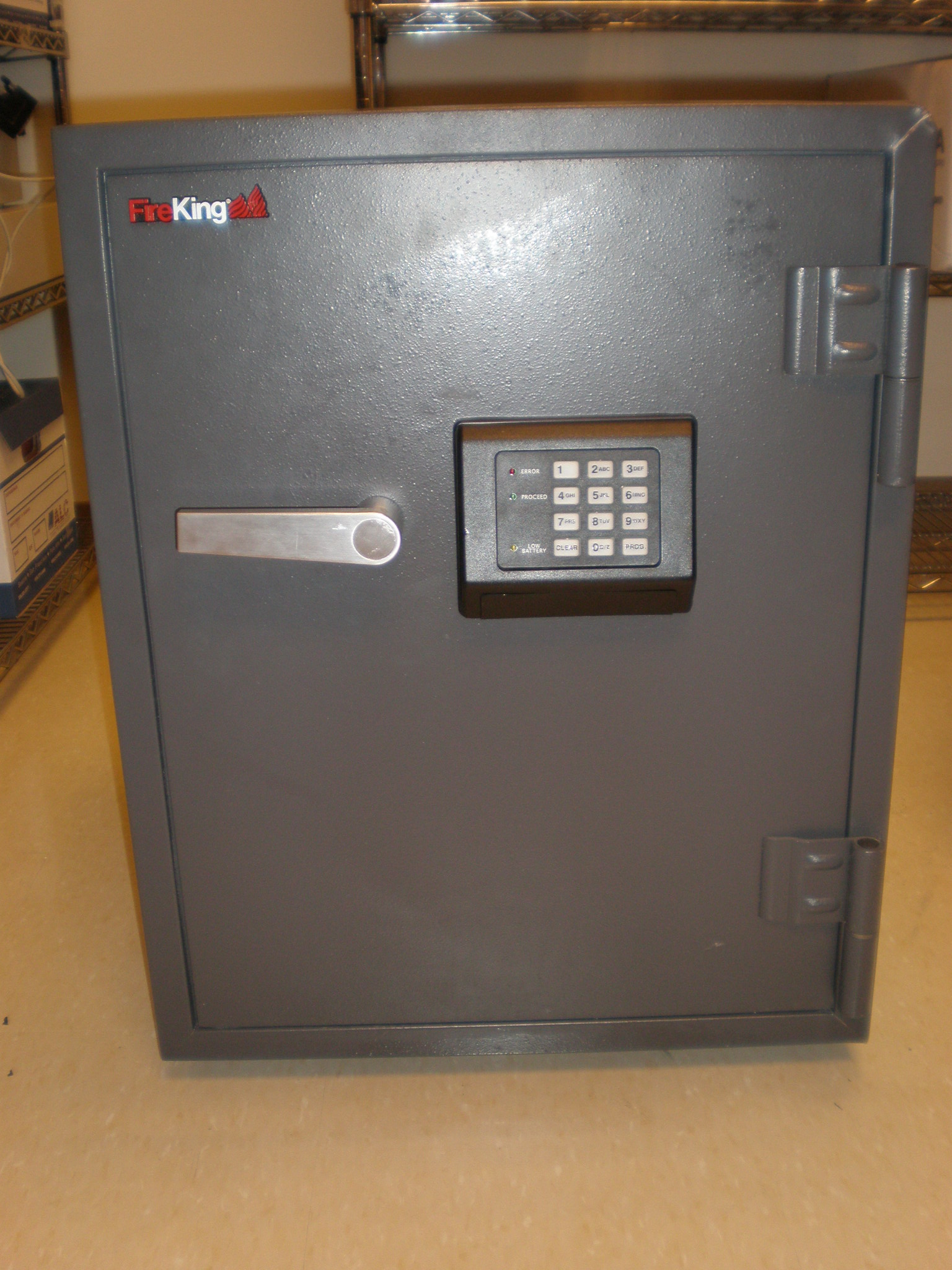 A FireKing KV2015-2 safe, class 350-2R.